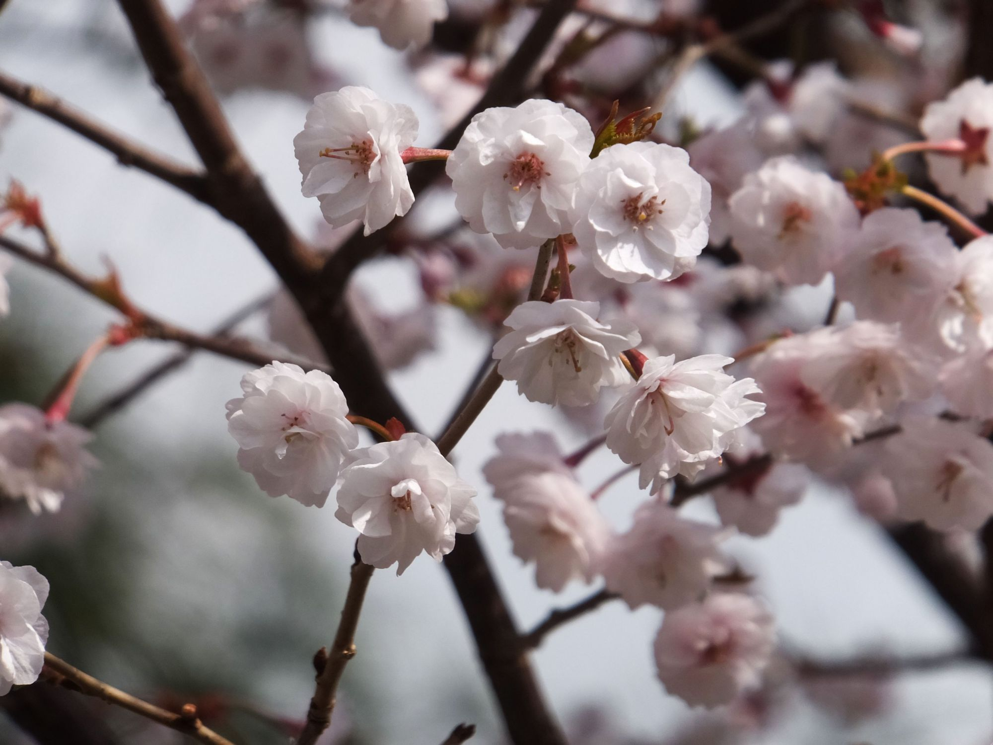 Prunus incisa var. kinkiensis "Kumagaizakura"